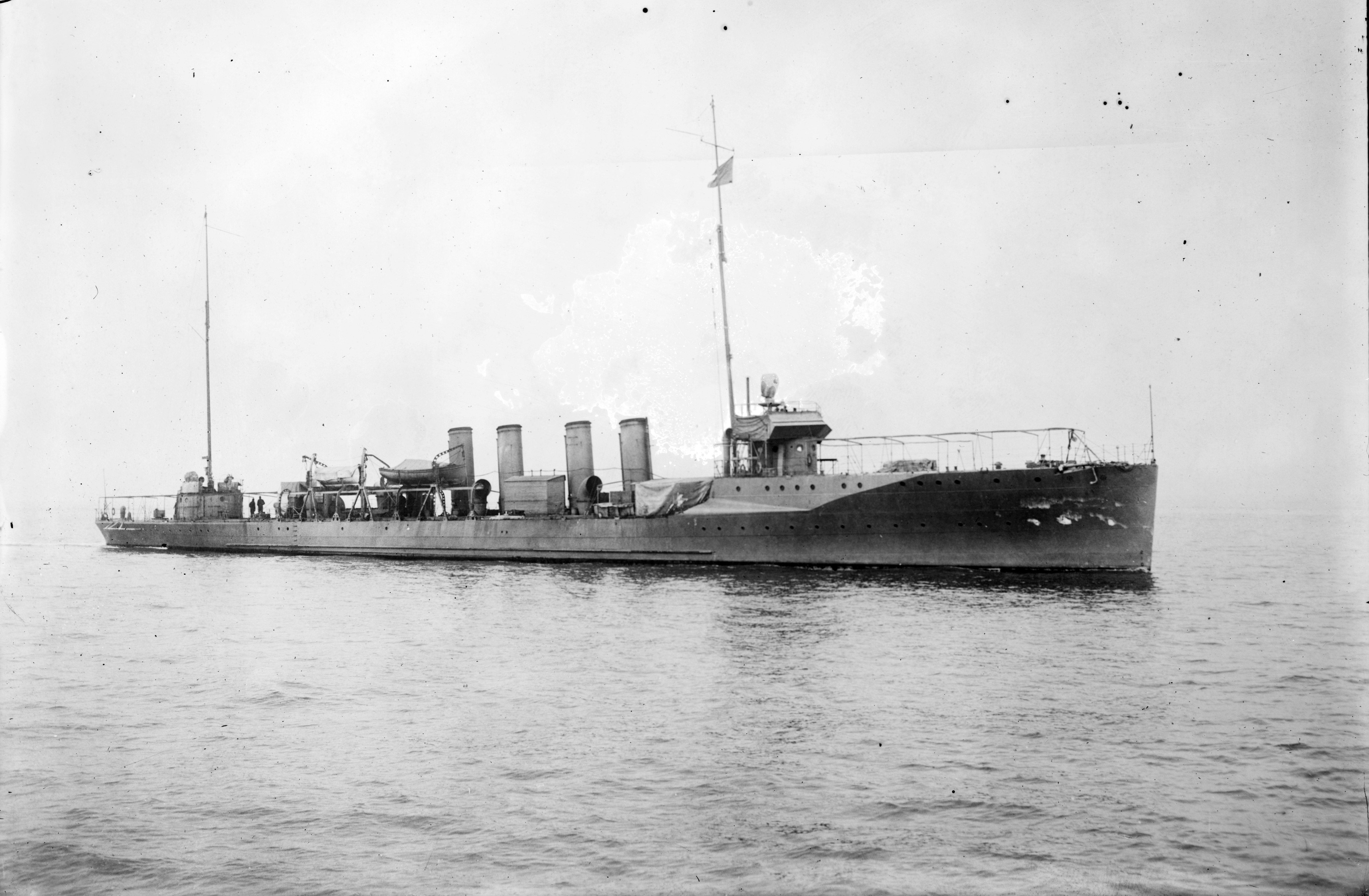 Photo of USS Wainwright (DD-62) by the Bain News Service sometime between 1916 and 1922.